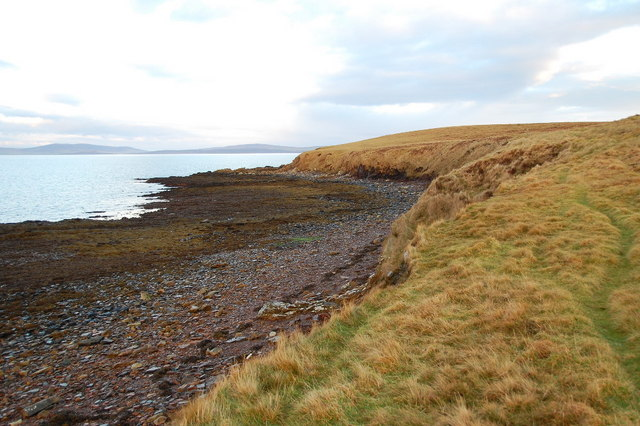 South West Glimps Holm This part of the island is bounded by low-lying grassy "cliffs". Boulder beach exposed because of the low tide.